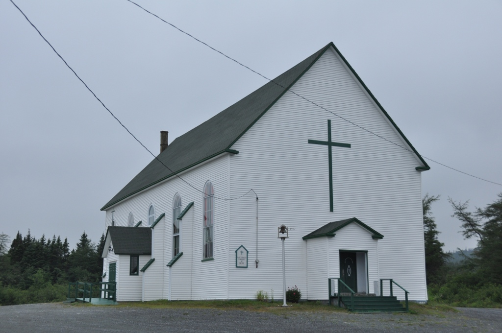 St. Charles Borromeo Church and Grounds Municipal Heritage Site, Fermeuse, Newfoundland